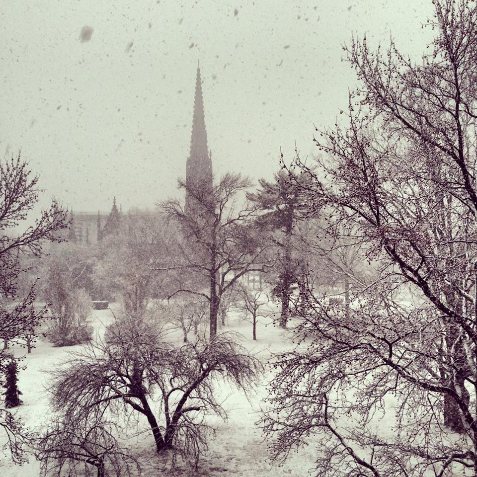 An Aerial View of the Cathedral of the Incarnation in a snowstorm.